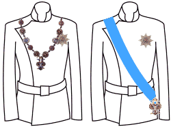 This work has been released into the public domain by its author, Участник:Чобиток Василий at the wikipedia project. This applies worldwide. In case this is not legally possible: Участник:Чобиток Василий grants anyone the right to use this work for any purpose, without any conditions, unless such conditions are required by law.